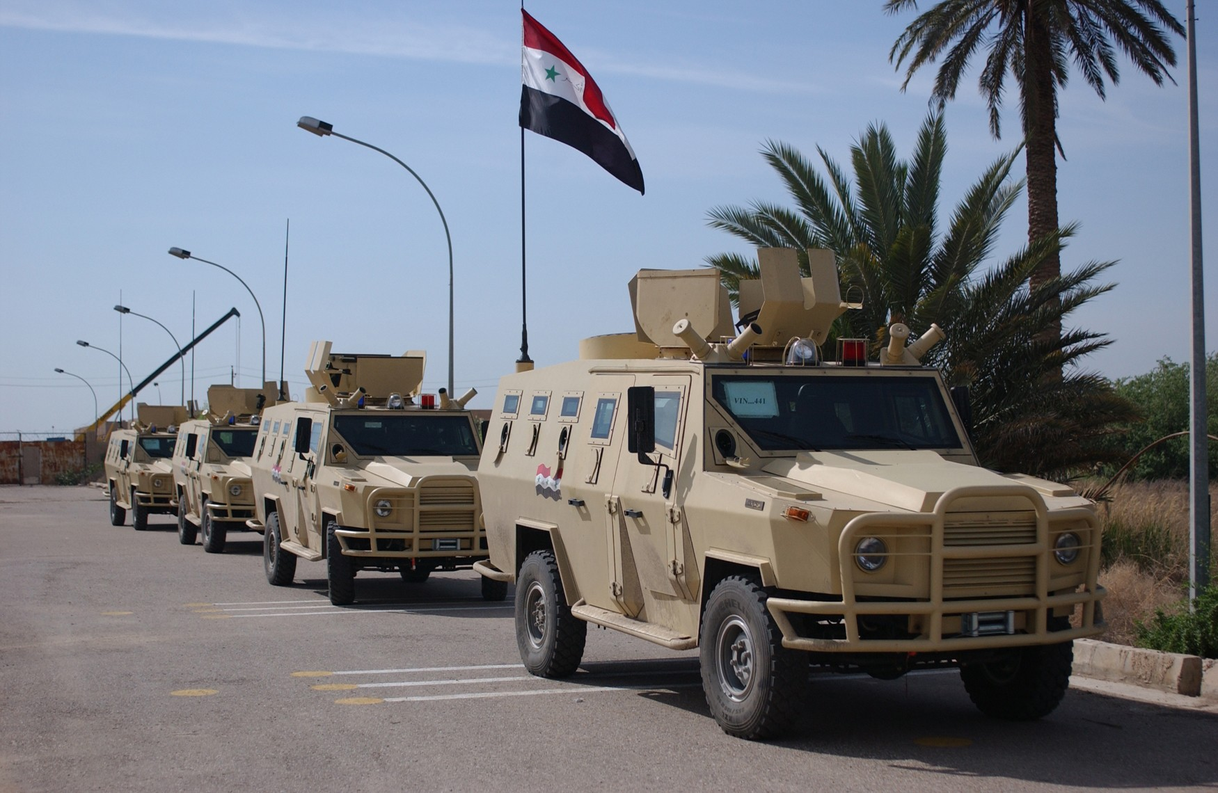 The 6th Iraqi Army Division's military police company received four Polish army vehicles (erratum: the Polish Army never used Dzik-3 vehicles, Polish Military Police use similar Dzik-2, these vehicles were brand new and specifically designed for the Iraqi Army and bought by the Iraqi Goverment from the producer) in March as part of an initiative by the Iraqi Defense Ministry to provide updated equipment to soldiers. The Dzik-3s are a huge upgrade from the light utility vehicles the MPs have used since the start of the war.